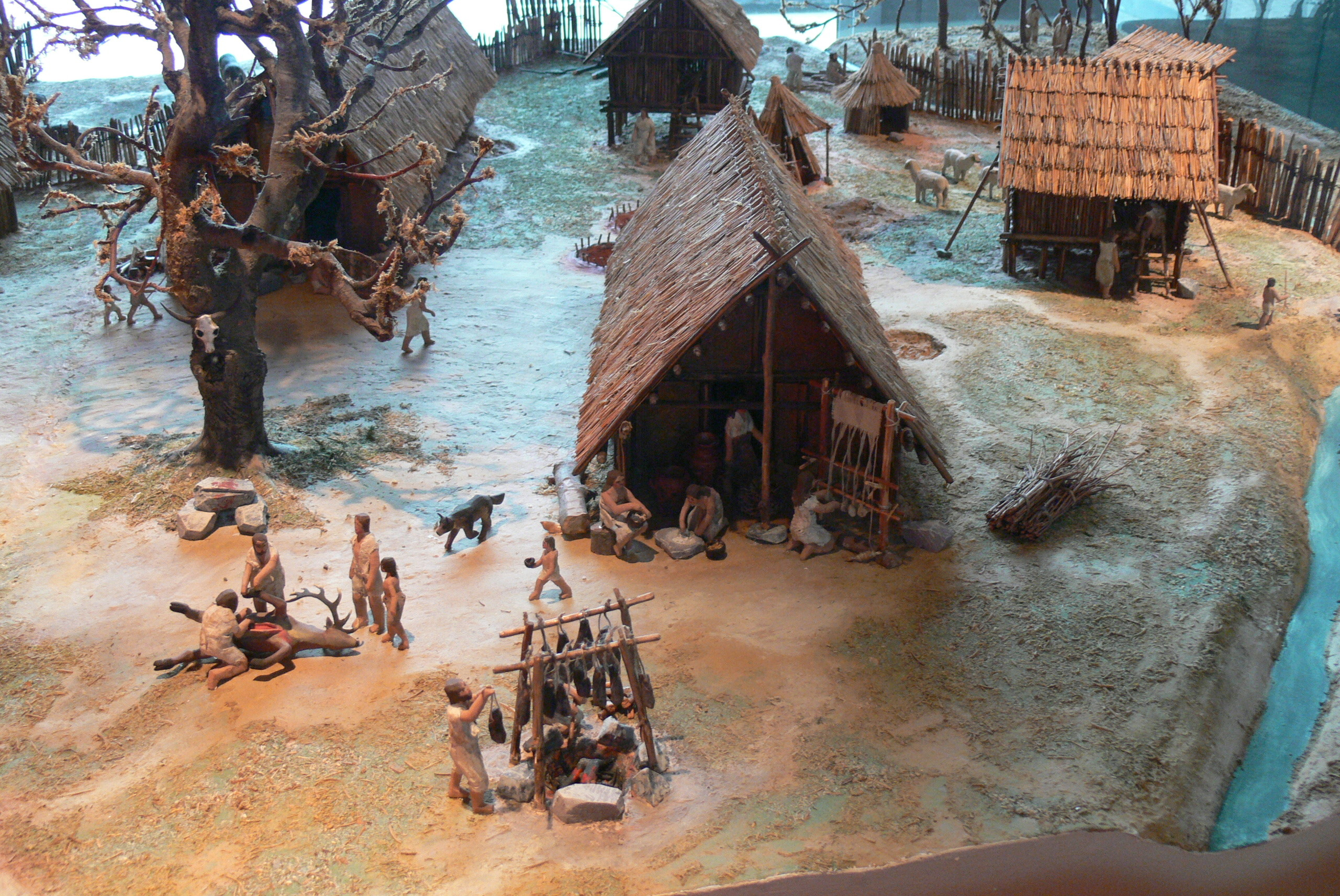 Wels ( Upper Austria ). City Museum - Minoritenkloster: Model of a neolithic village.